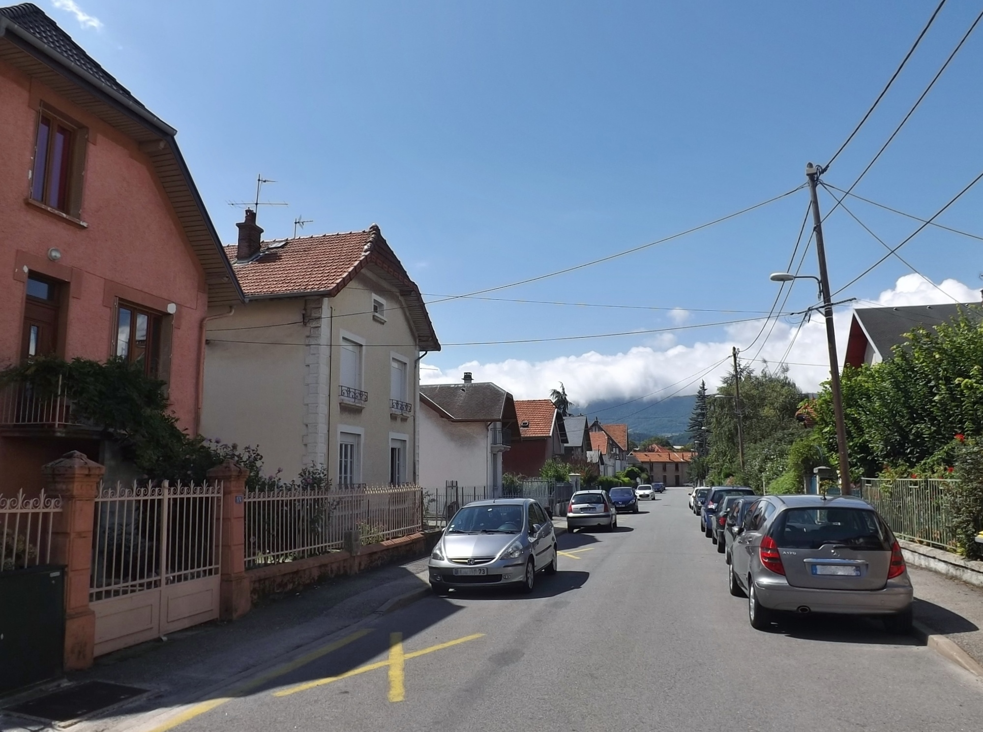 Sight of the northern Angleterre neighborhood, built at the beginning of the 20th century, in Chambéry, Savoie, France.